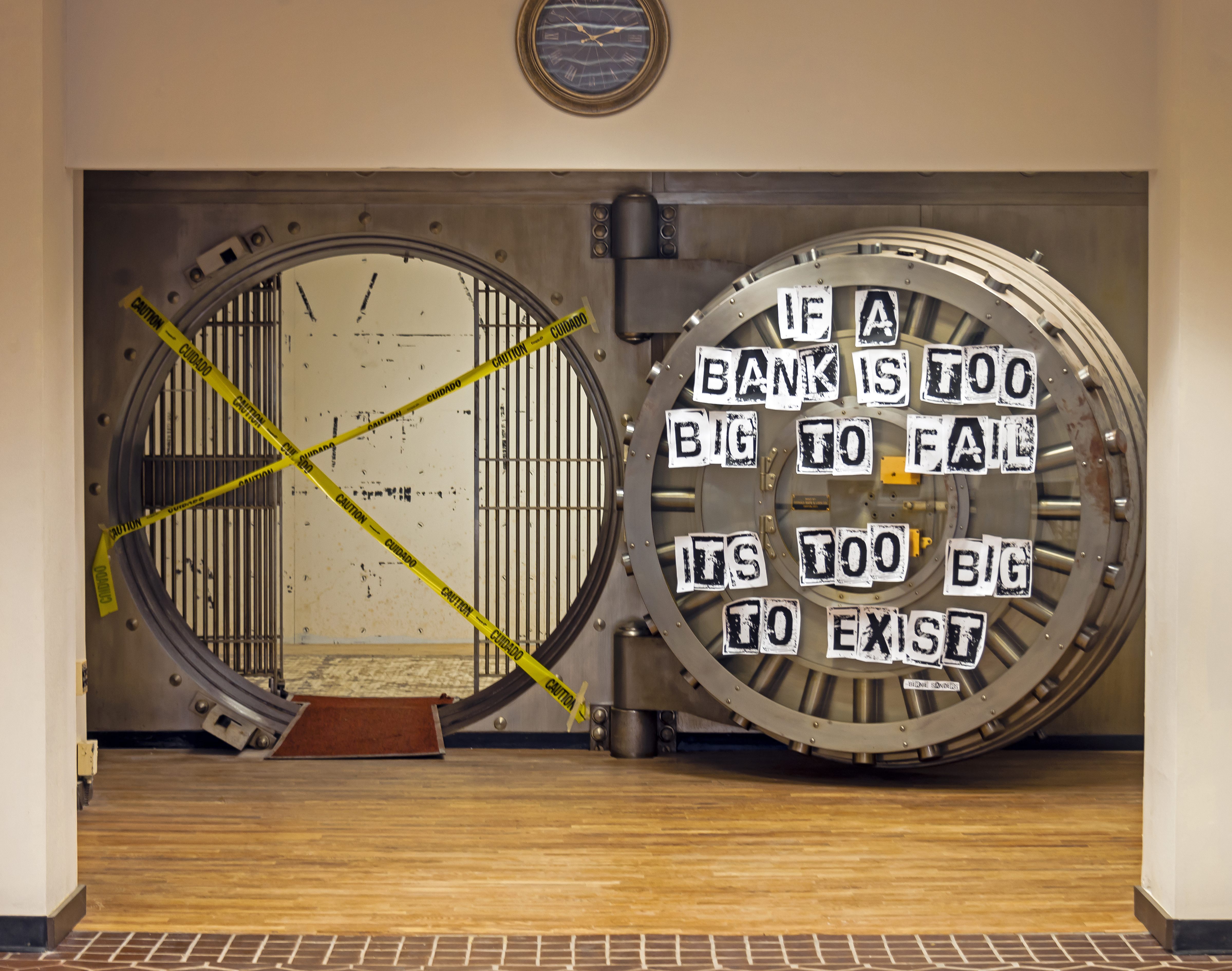 Vault at former Poughkeepsie Savings Bank building, Poughkeepsie, NY, USA, decorated with a quote from Democratic presidential candidate Bernie Sanders: "If a bank is too big to fail. it is too big to exist." The building was being used by his local campaign staff as headquarters at the time, in anticipation of that year's New York primary a few weeks later.